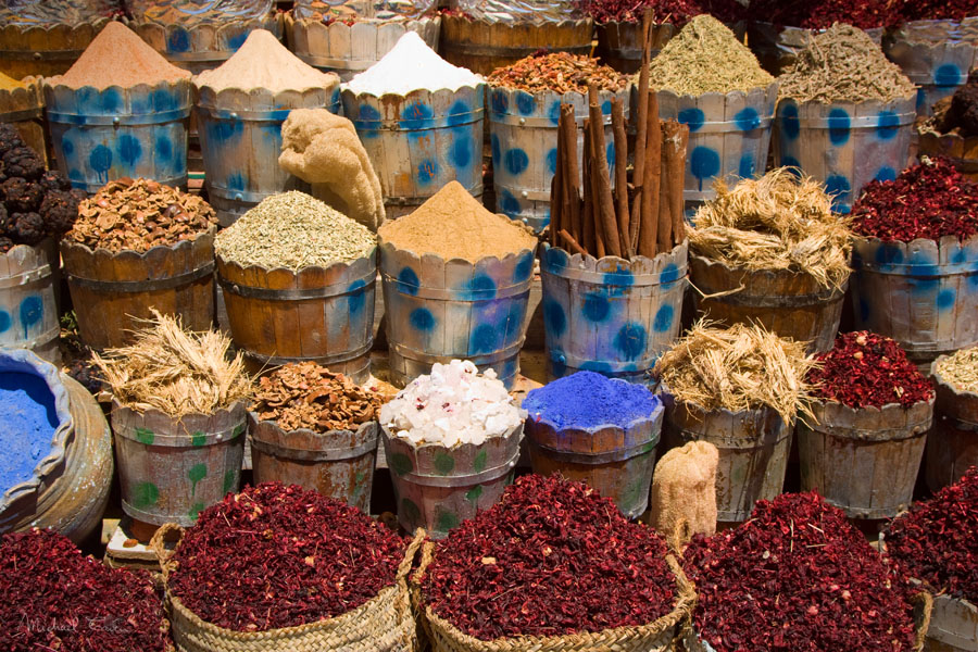 Spices sold on the street in Hurghada, Egypt.